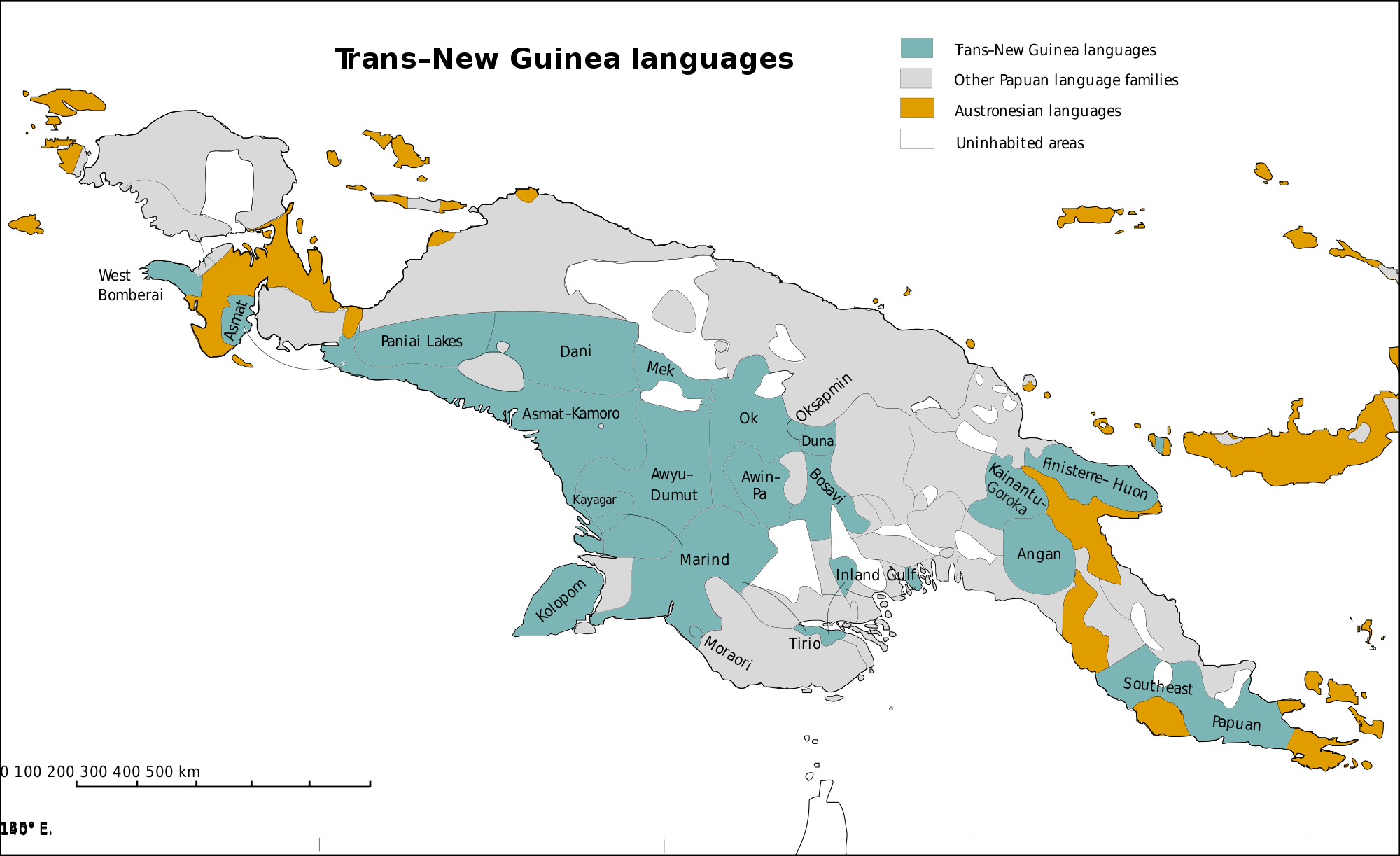 A composite of Pawley and Hammerstrom and Usher's conception of the Trans-New Guinea family, this only includes the families that both papers agree on. The isolate inside of Asmat-Kamoro is the Awbono-Bayono dialect cluster.